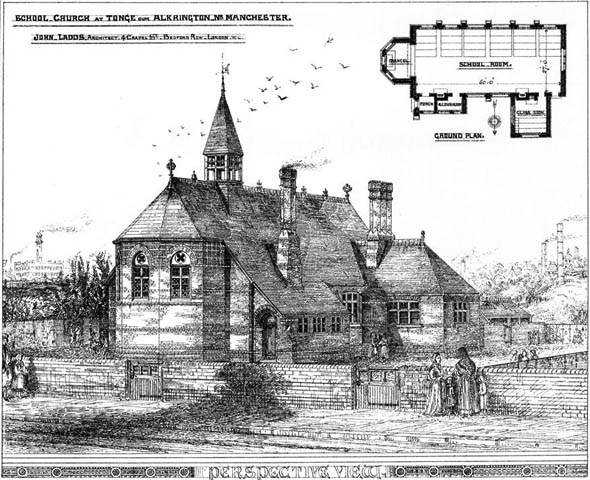 64px|Public domain